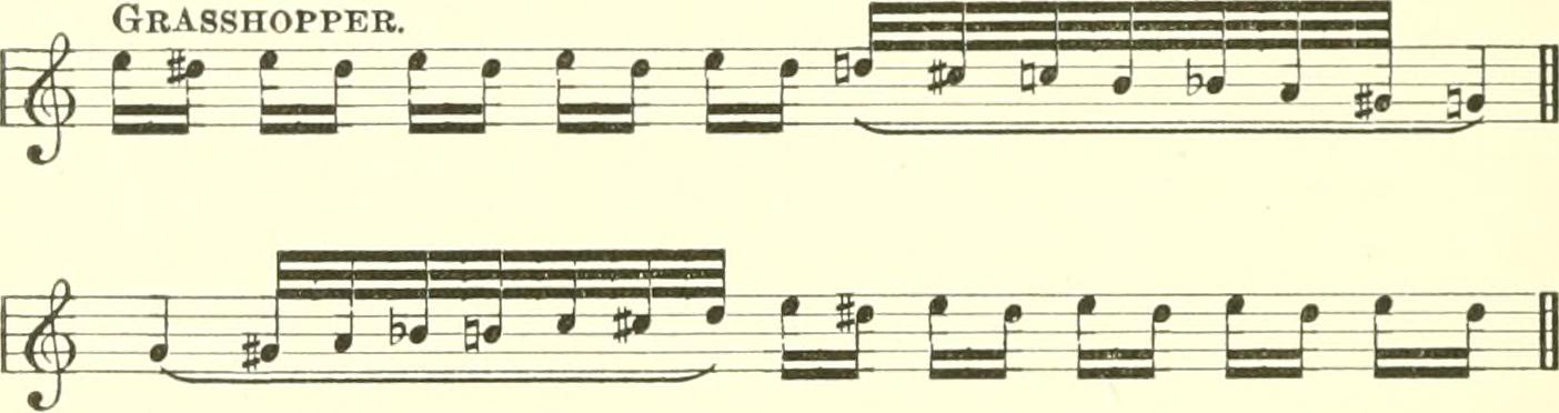 Title: Wood notes wild, notations of bird music; Year: 1892 (1890s) Authors: Cheney, Simeon Pease, 1818-1890 Cheney, John Vance, 1848-1922 Subjects: Birdsongs Publisher: Boston, Lee and Shepard Text Appearing Before Image: CAT. 2, When excited. ^^^m^^^ COCK. ,uU^- f ^- ifaL_j r J „;E 15 226 WOOD NOTES WILD. ANNA HINRICHS. (Summers Natural Orchestra, in The Popular Science News,vol. XXV. no. ix., September, 1891.) Cock chaffer. m ^ i J J. Death-watch Call. Answer. £E;^tfe^;j^^=J^^Jd Cricket. ^^,m^m^=m Grasshopper. Text Appearing After Image: Bumble-bee. s s J—& «^ f HOUSE-FLT. Gnat. ^^^^ ^3^ BIBLIOGRAPHY. BIBLIOGRAPHY. * Indicates that the volume or article has not been examined by the editor.** Indicates that the volume or article contains notations. * Aaron, S. F. Odd Bird Songs. (Ornithologist and Oologist, vol. viii., April, 1883, p. 28.)Abbott, C. C. Outings at Odd Times. N. Y., 1890. Waste-land Wanderings (Song of Eels and Fishes), pp. 300-301. N. Y., 1887.Agassiz, L., and Gould, A. A. Principles of Zoology. Boston, 1866.Allen, C. N. Songs of Western Meadow Lark. (In Nuttall Ornitho-logical Club. Bulletin, July, 1881.)Allen, G. Esthetic Feeling in Birds. (Pop. Set. Mo., vol. xvii., Sept., 1880, pp. 653-654.) Ancestry of Birds. (Longmans Mag., vol. iii., Jan., 1884, pp. 284-298.) * Physiological Esthetics. London, 1877. Allen, J. A. Notes on Some of the Rarer Birds of Mass. (Amer. Naturalist, vol. v., Dec, 1869, pp. 509-510.)American Museum of Natural History, N. Y. Bulletins.Amory, Catherine. Birds in May. (S